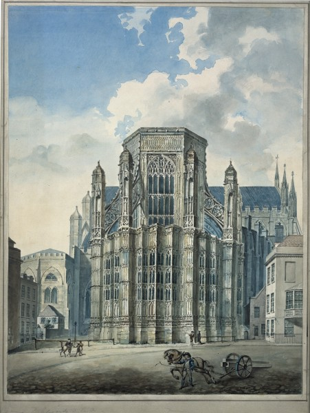 View of historical site in pencil and watercolour